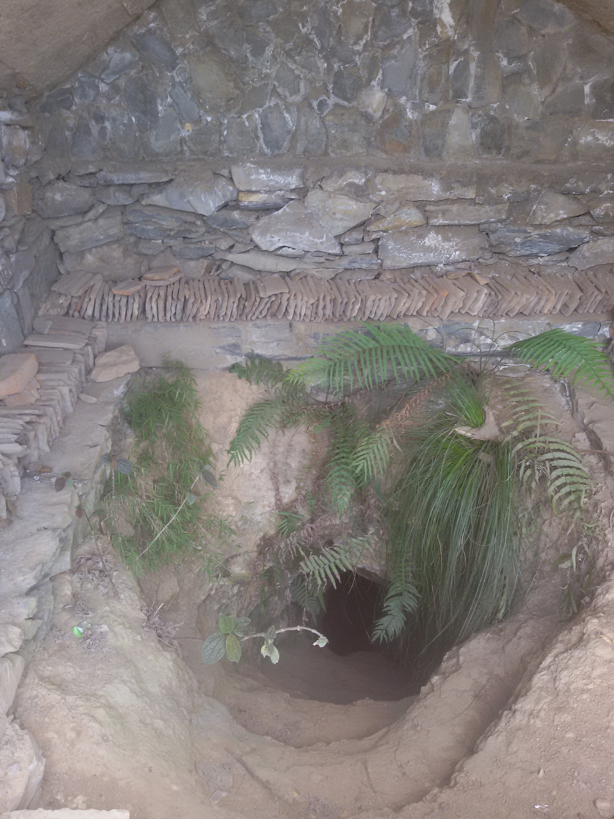 नेपाली: manjushree park chobhar